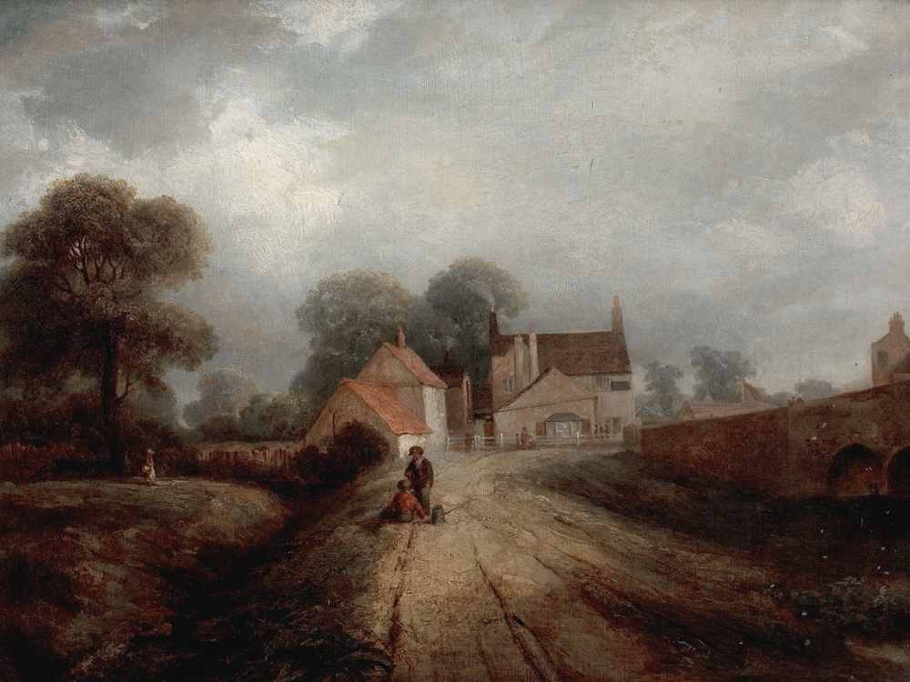 View of the Old Trent Bridge Inn in 1850 by Robert Bradley